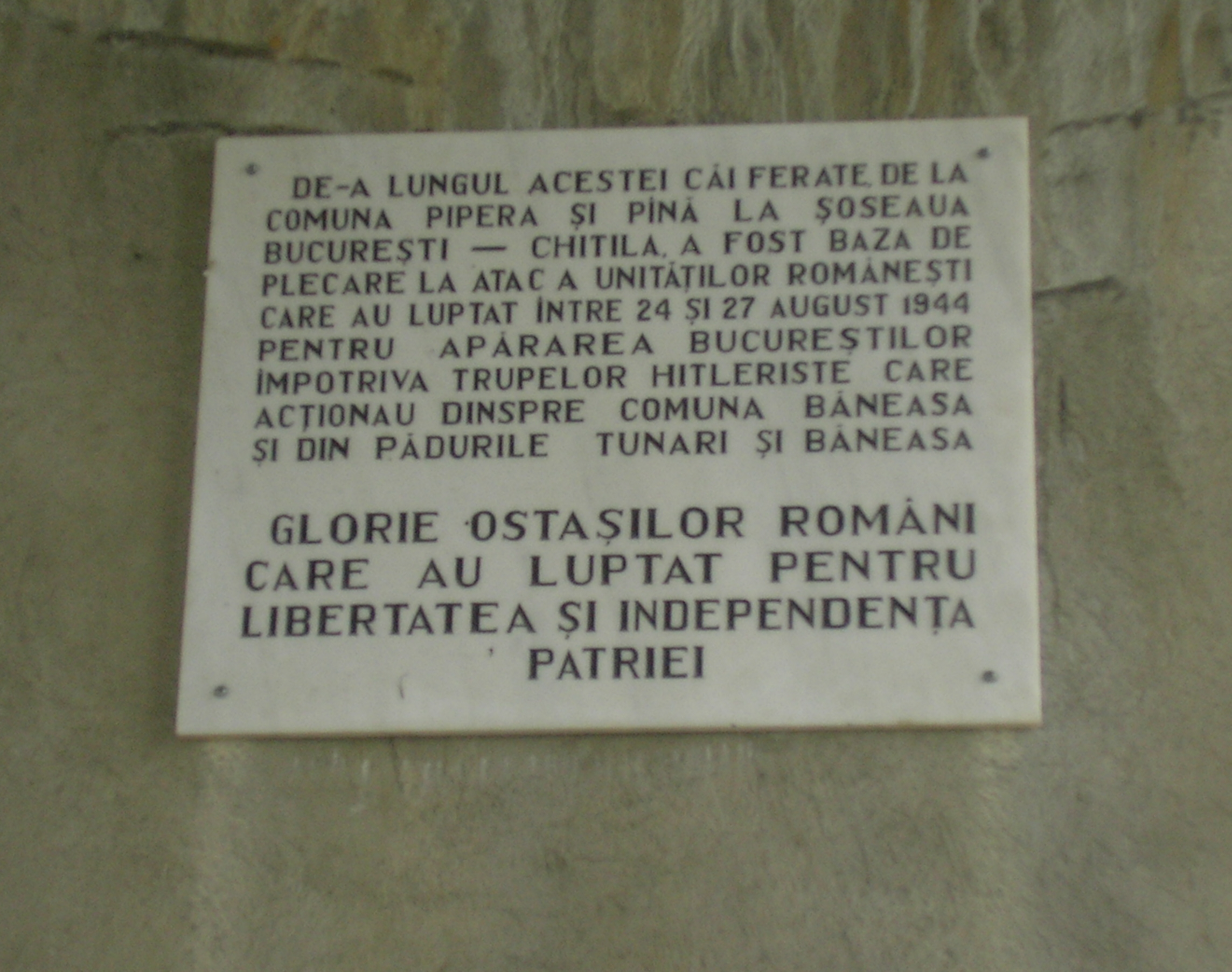 Memorial plaque commemorating Bucharest-based Romanian troops who fought Nazi German troops in August 24-August 27, 1944 (following the August 23 coup, which took Romania out of the WWII Axis camp); located in Băneasa, Bucharest, at the foot of a railway bridge. The caption reads: The area alongside this railway line, from Chitila commune to the Bucharest-Chitila Highway, was the starting base of operations for the Romanian units who, between 24 and 27 August 1944, fought in the defense of Bucharest against Hitlerist troops who were operating from Băneasa commune and the Băneasa and Tunari woods Glory be to the Romanian soldiers who fought for the motherland's freedom and independence